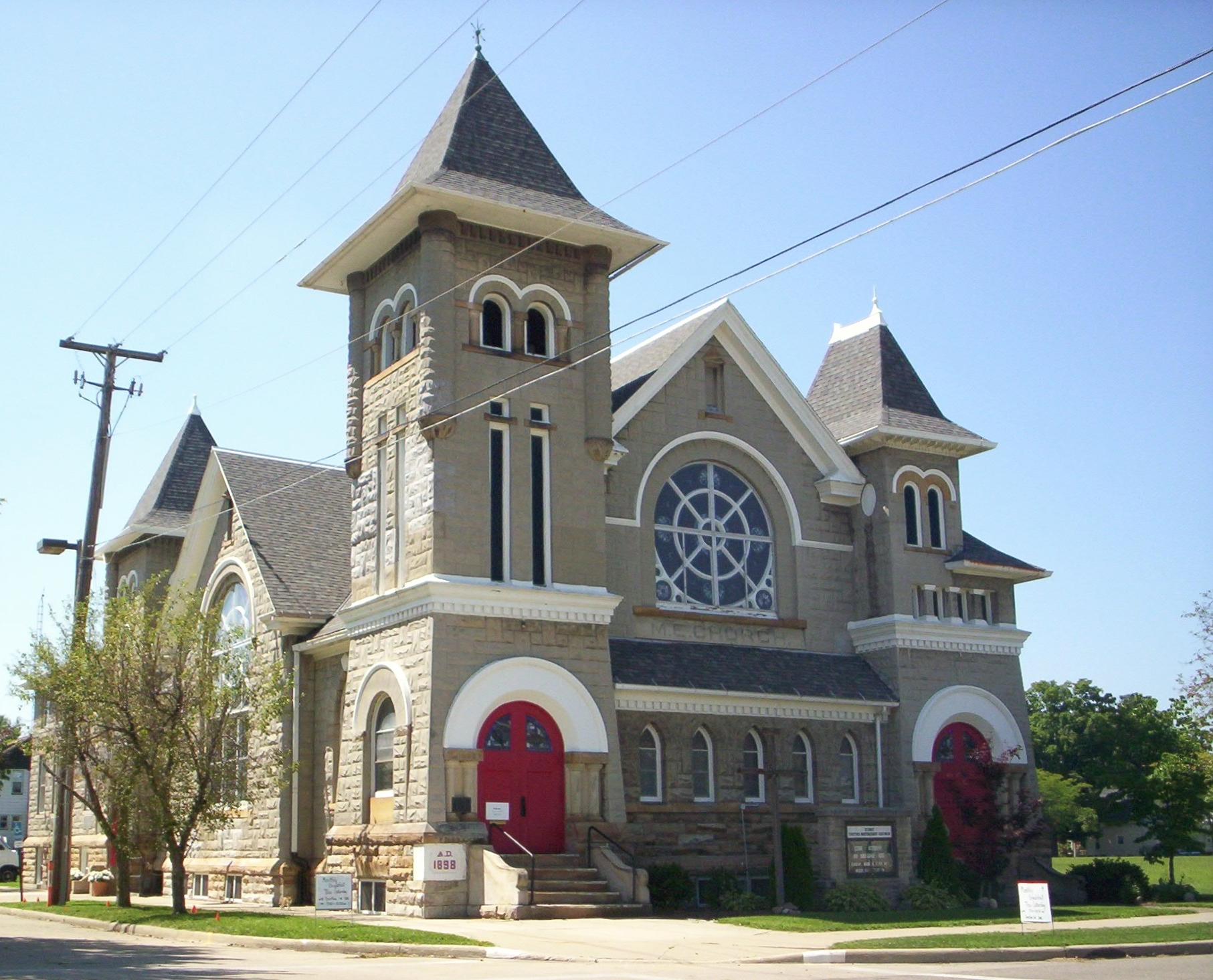 National Register of Historic Places Methodist Episcopal Church at the intersection of Thoman Street (Ohio 61) and Union Street in Crestline, Ohio, United States. It has been on the NRHP since October 27, 1978.